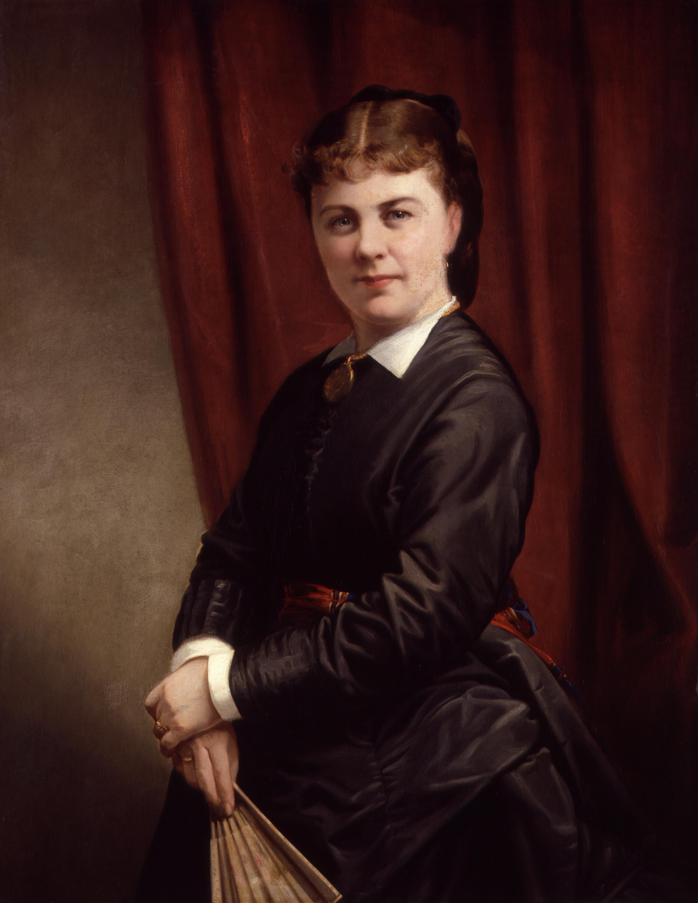 Marie Effie (née Wilton), Lady Bancroft, by Thomas Jones Barker (died 1882). All images in this batch have been confirmed as author died before 1939 according to the official death date listed by the NPG.